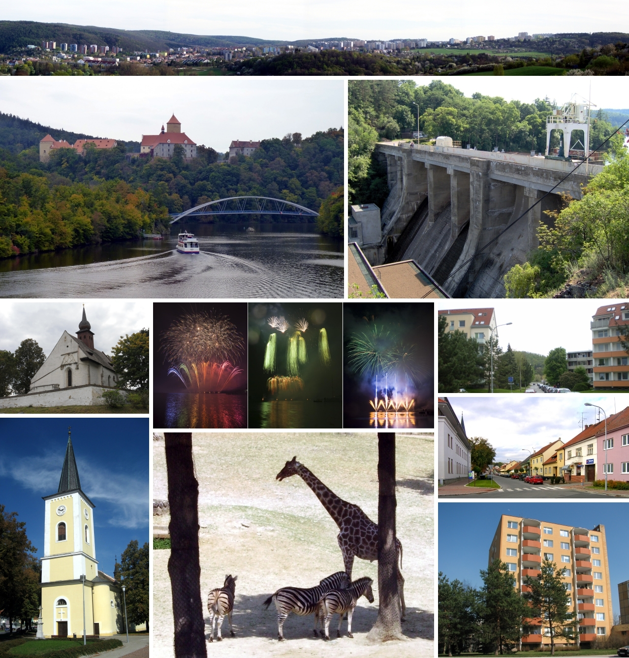 Church of Our Lady, Brno, Czech Republic